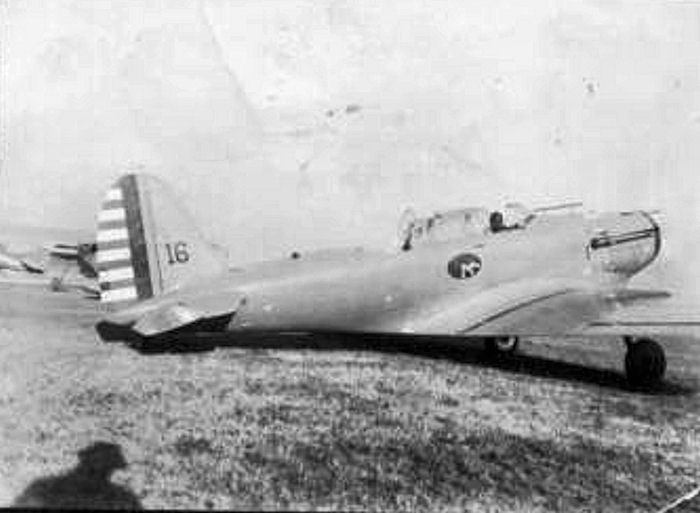 33d Pursuit Squadron Consolidated P-30, Langley Field, Virginia